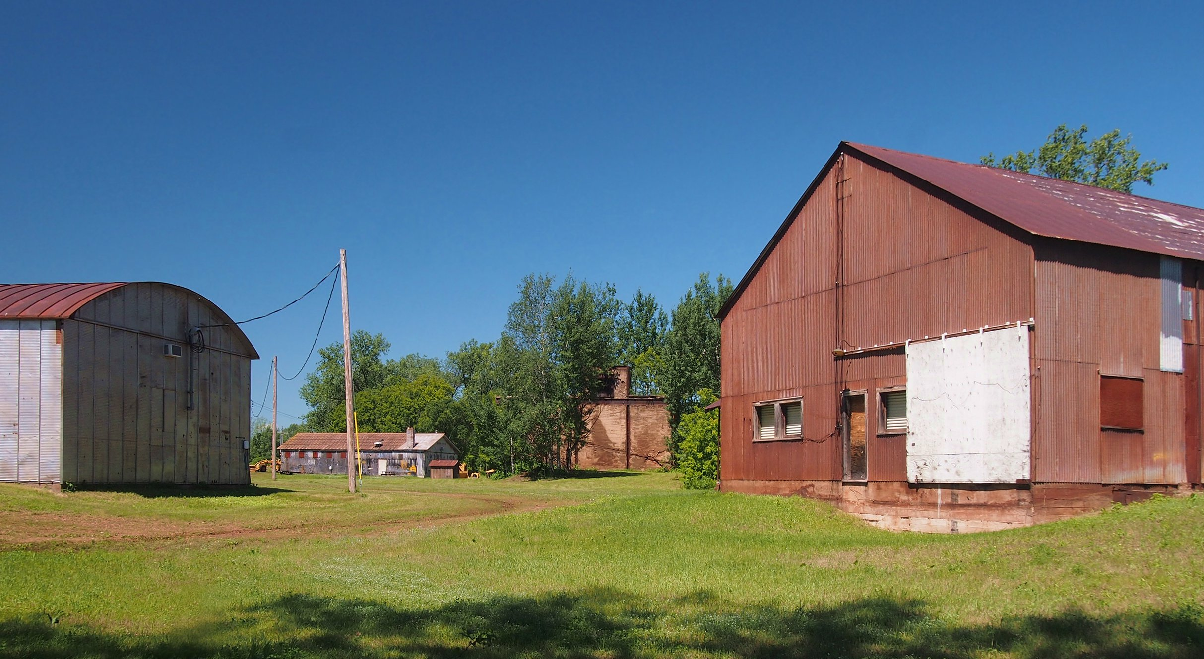 From left to right: garage, dryhouse, sintering chamber, and machine shop/warehouse, Ironton Sintering Plant Complex, Crosby, Minnesota, USA. Viewed from the east.